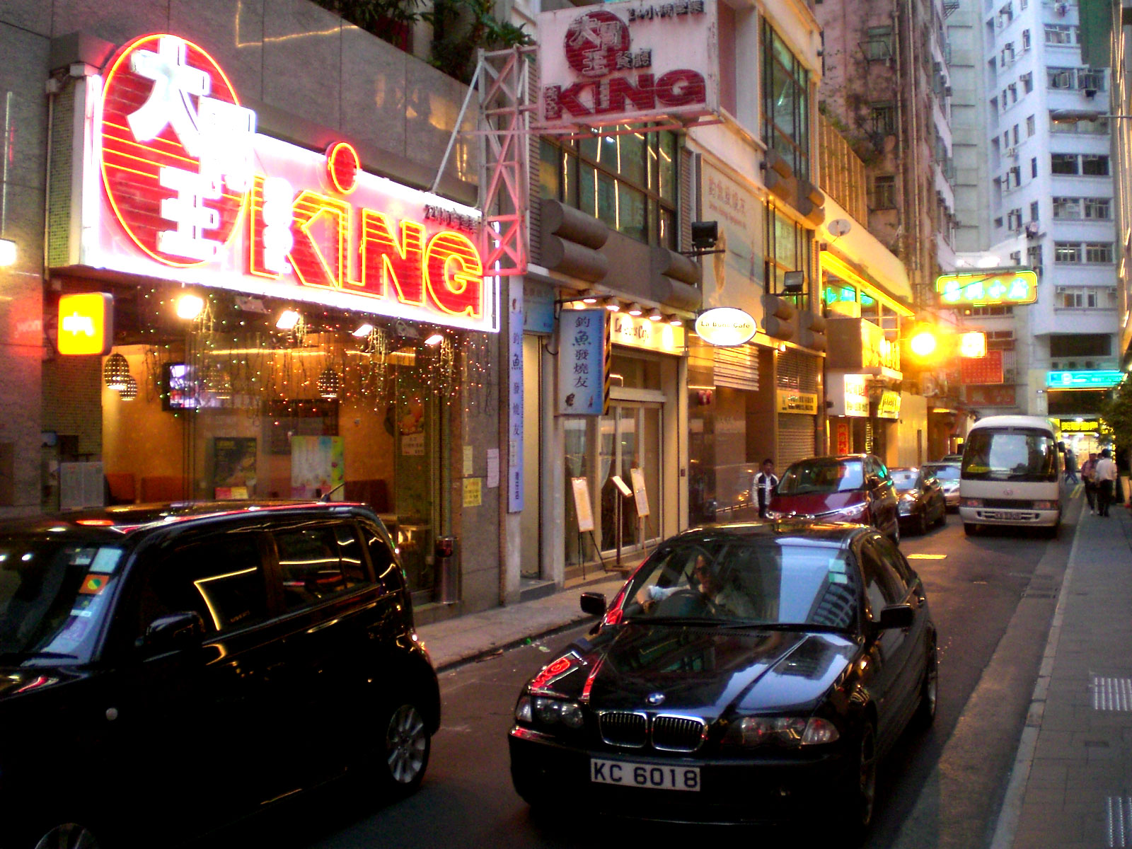 灣仔船街, Ship Street, Wan Chai, Hong Kong